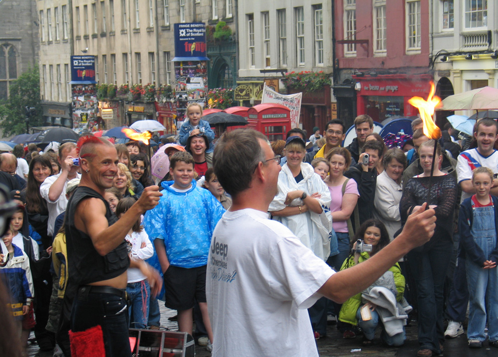 A street performer on the Royal Mile at the Edinburgh Fringe